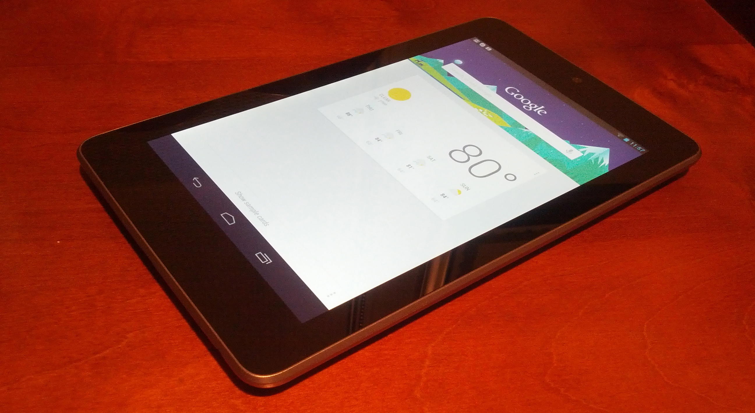 Nexus 7 running Google Now.